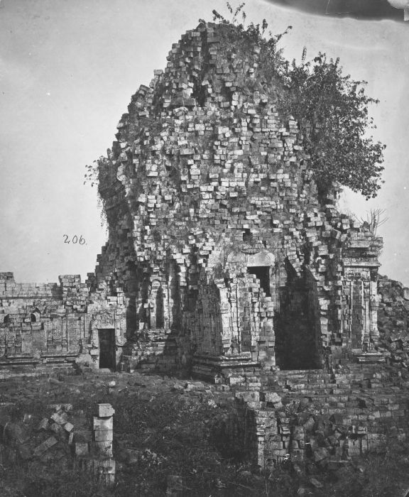 The Candi Sewu